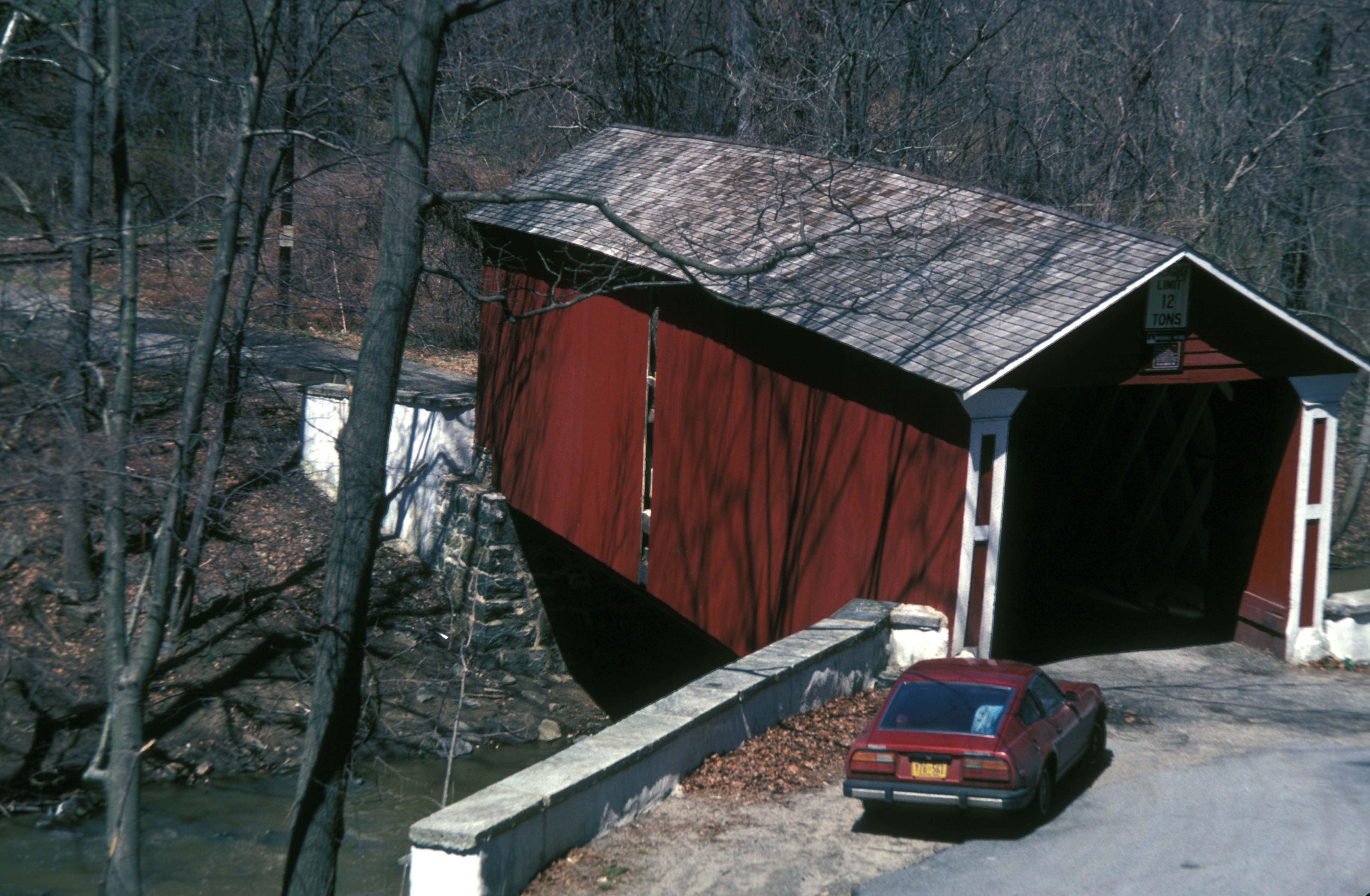 Covered Bridge from 1870 Over Red Clay Creek; 6- Feet Town Construction